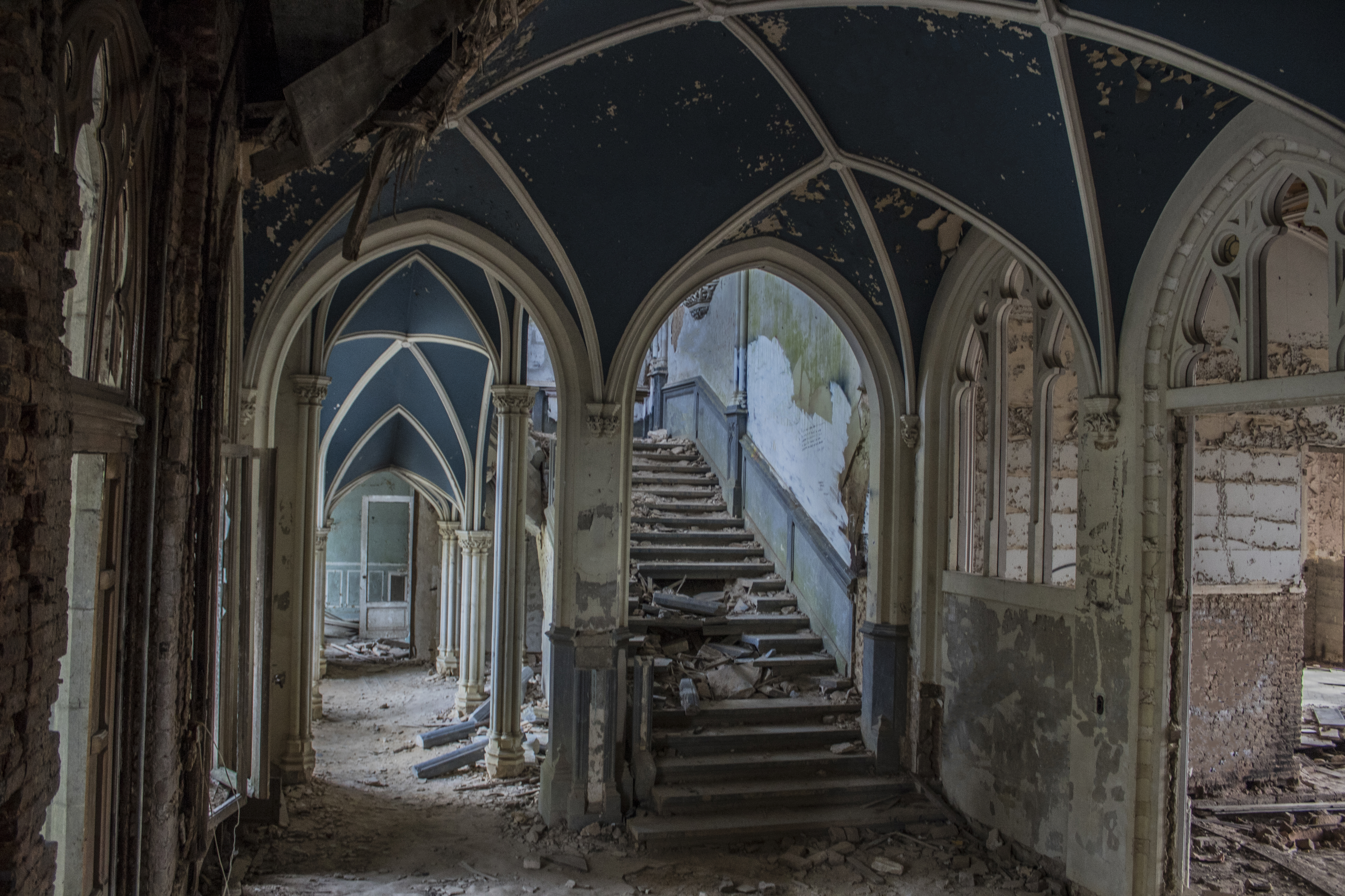 May 2017 The Hallway of Chateau Noisy